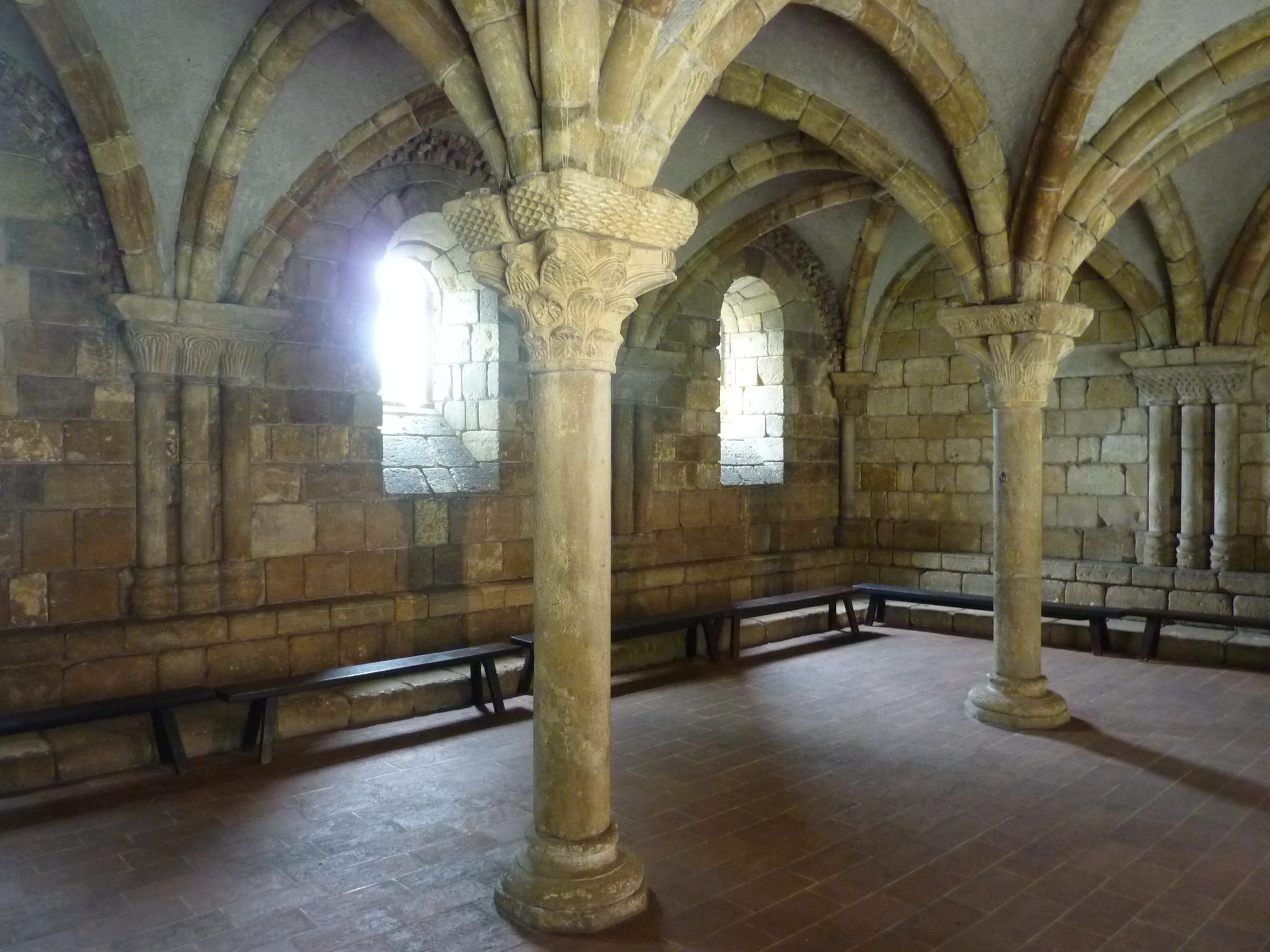 Pontaut Chapter House, The Cloisters, New York